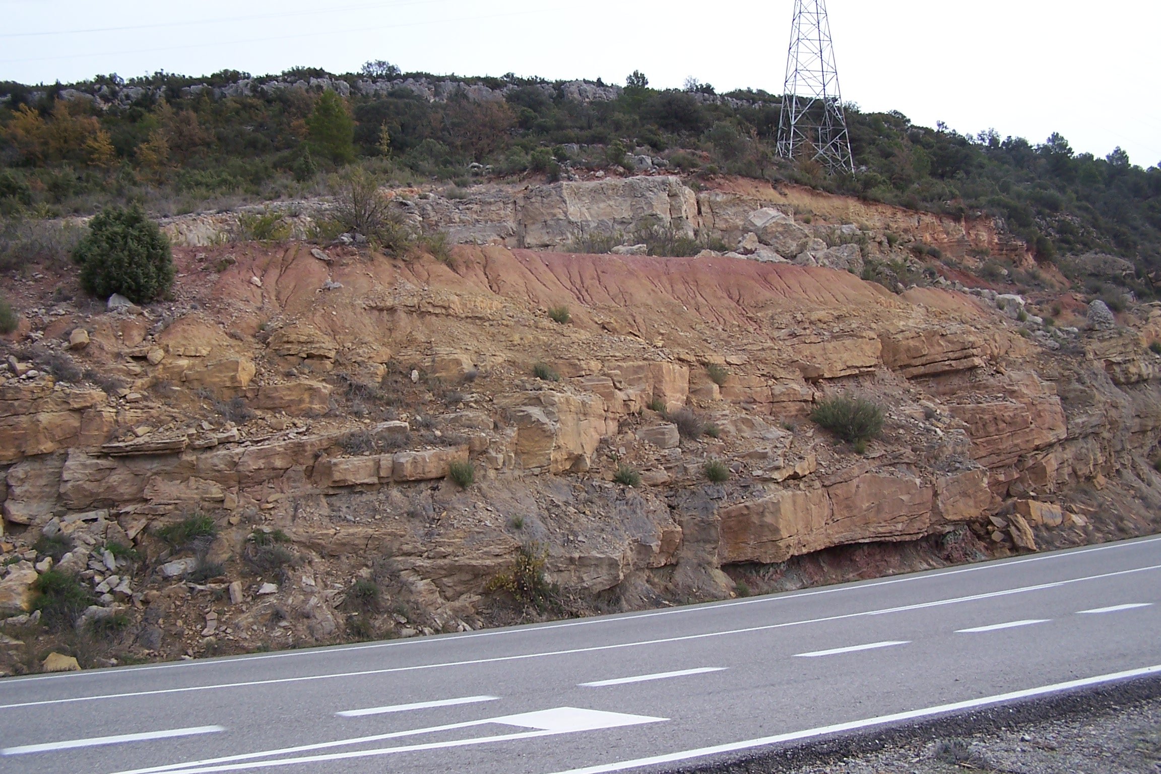 Stratigraphy, Tremp Formation in Spain.